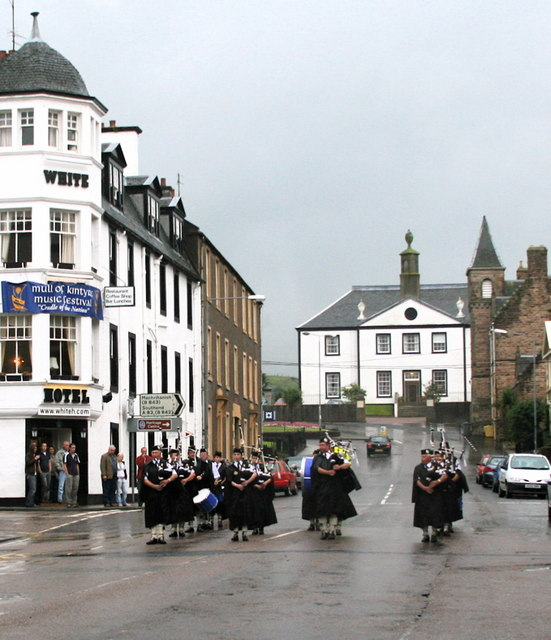 Main Street Campbeltown From Main street during Music Festival with Campbeltown Pipe Band